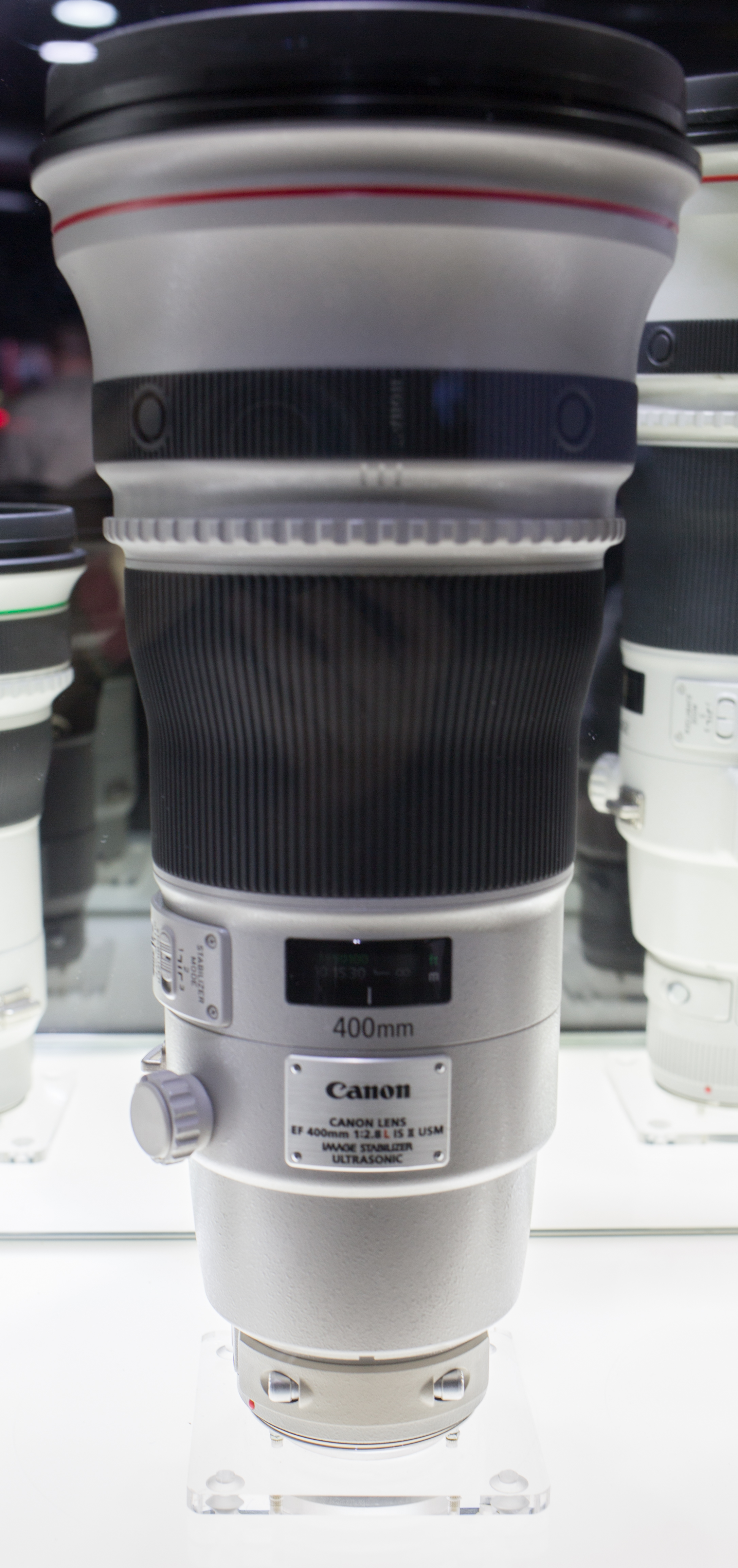 Image of the Canon EF 400mm f/2.8L IS II USM lens